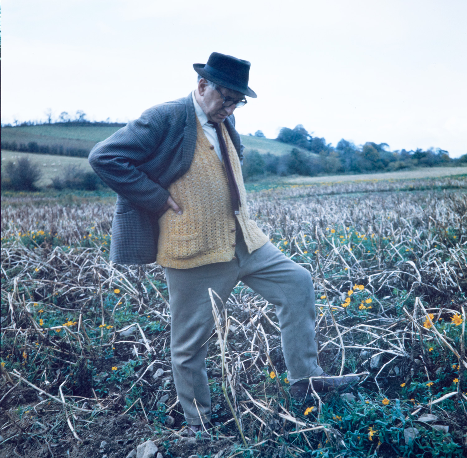 … pondering the Stony Grey Soil of Monaghan at his native Inniskeen. The Dictionary of Irish Biography entry for Patrick Kavanagh gives 21 or 23 October 1904 as his birth date, but most other sources say that Patrick Kavanagh was born on 21 October, which is 109 years ago today. Photographer: Elinor Wiltshire Date: 1963 NLI Ref.: WIL pk5[2]